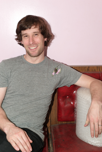 Permission by artist